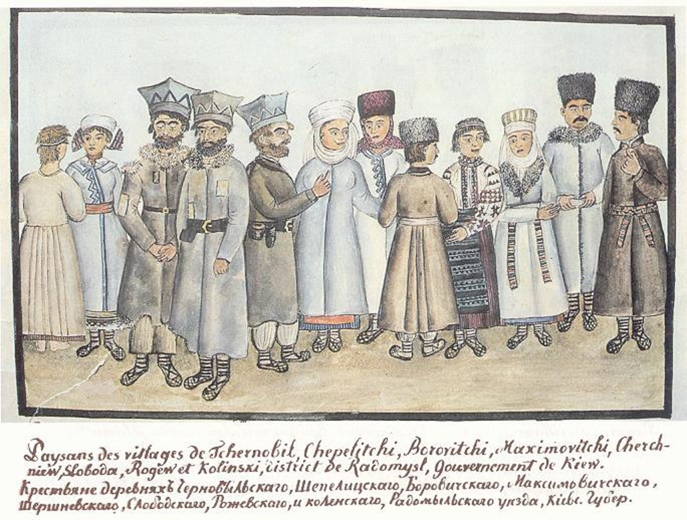 Kyiv